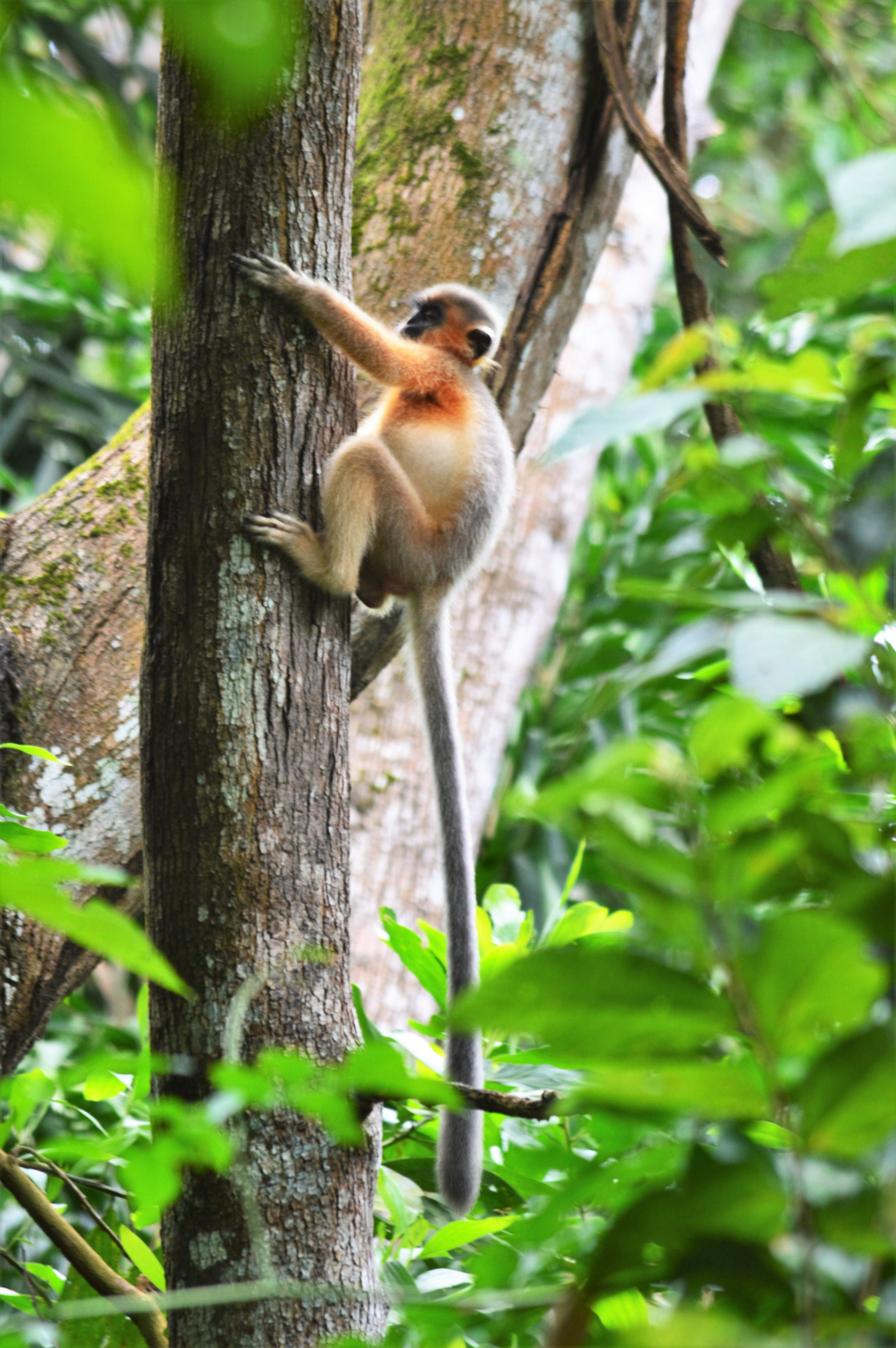 লাউয়াছড়ার জীবন চিত্র : মুখপোড়া হনুমান বা লালচে হনুমান ইংরেজি: Capped langur, Capped Monkey, Capped leafed monkey, Bonneted Langur বানর প্রজাতির একটি স্তন্যপায়ী প্রানী।